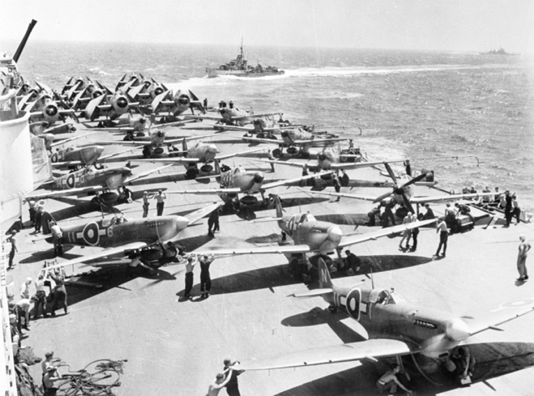 Royal Navy Fleet Air Arm Avengers and Seafires line up on the deck of the aircraft carrier HMS Implacable (R86) and warm up their engines before taking off. A destroyer is following the carrier, while a battleship is seen in the distance (upper right).